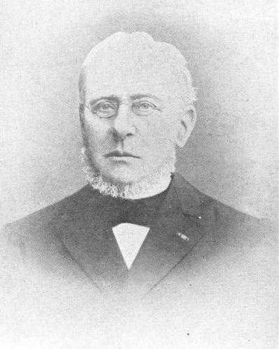 Marten Kingma Hylkezoon (1817-1900). From Tresoar